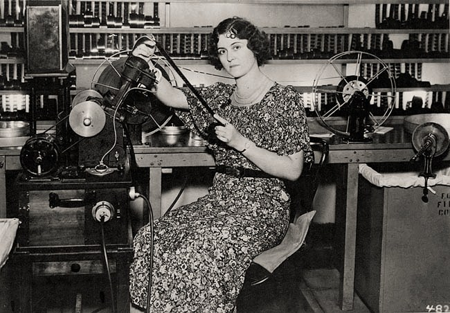 film editor Irene Morra - publicity still